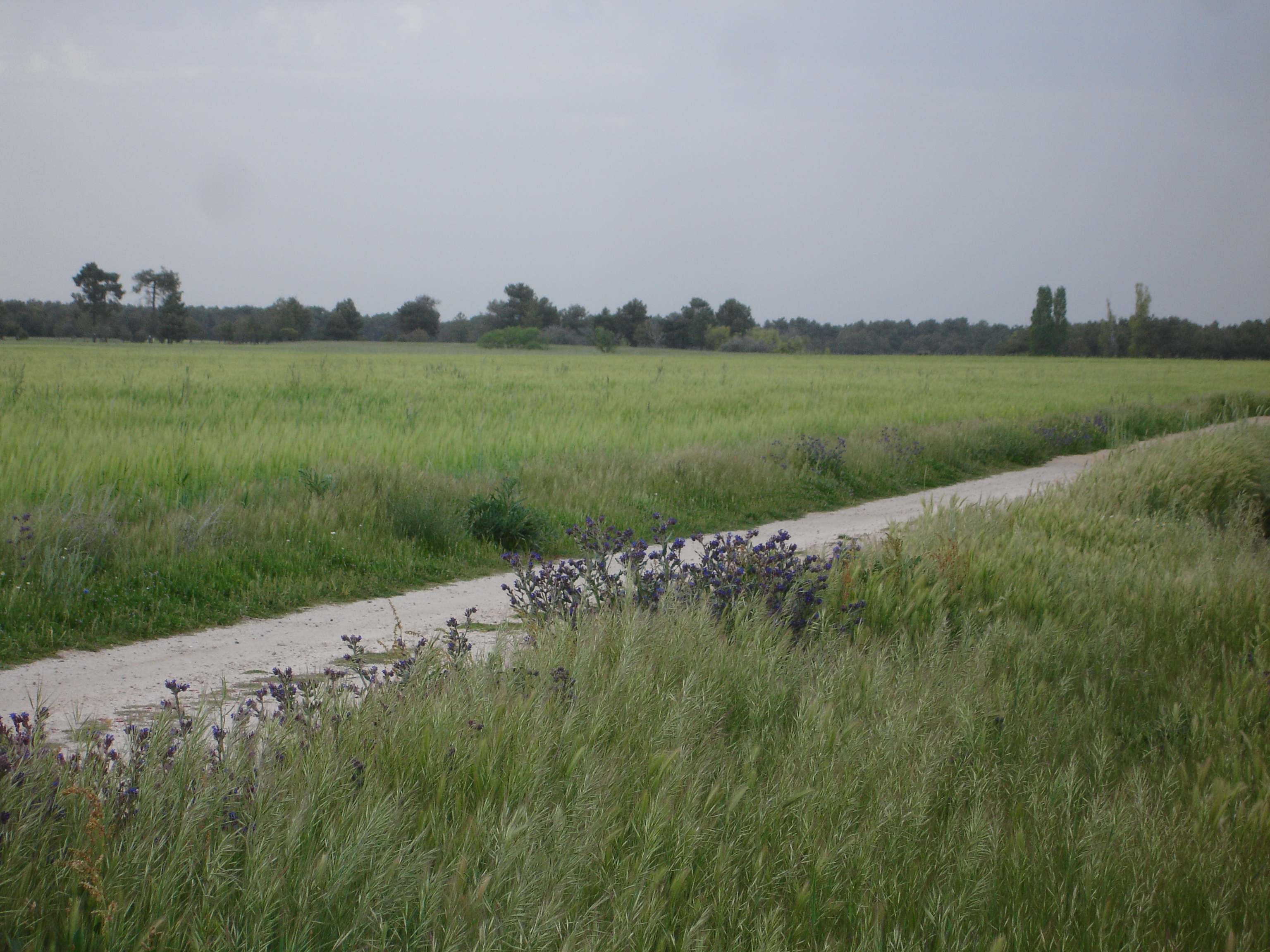 Province of Ávila, Spain